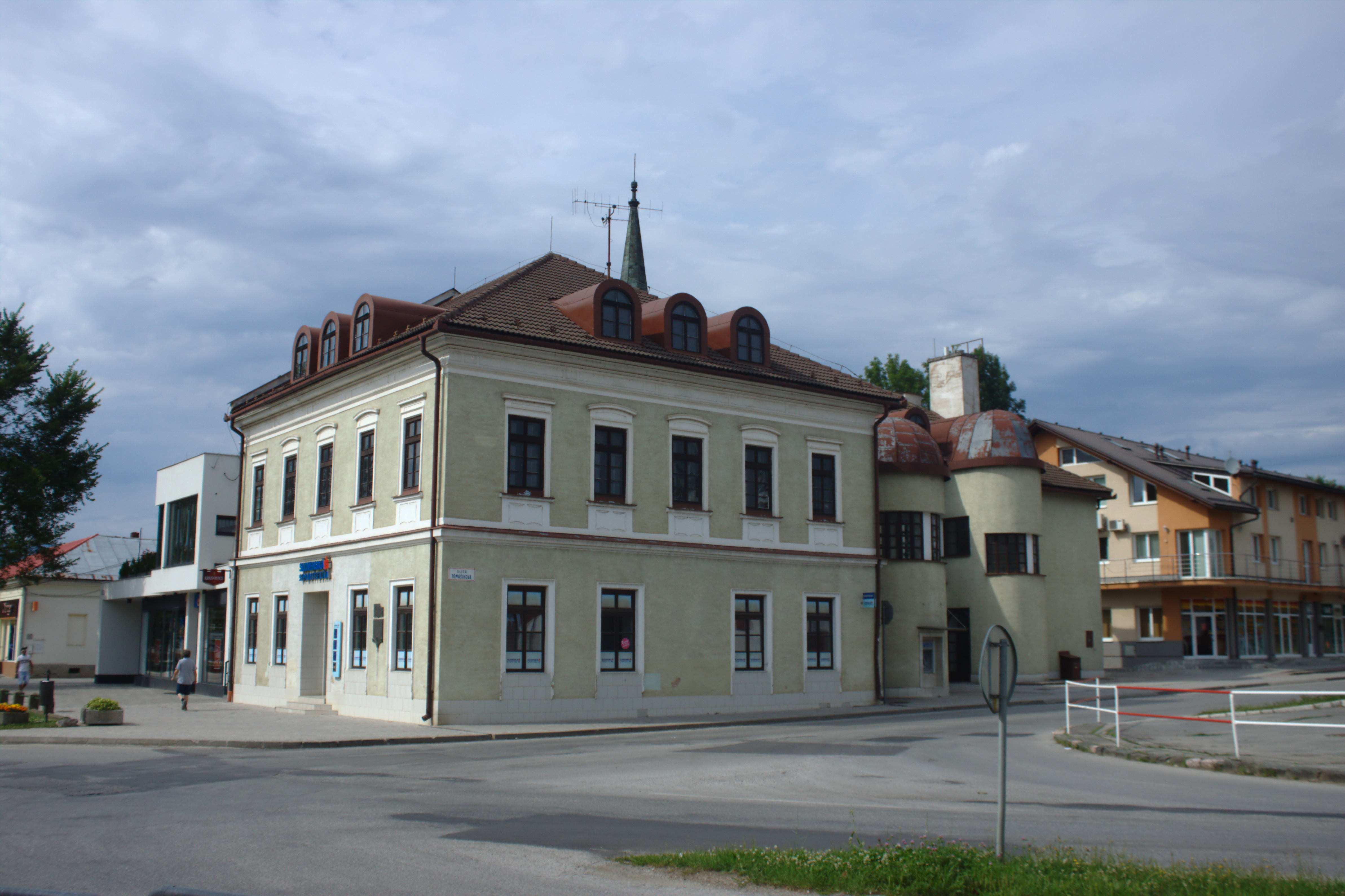 Local mansion in Revúca, Slovakia